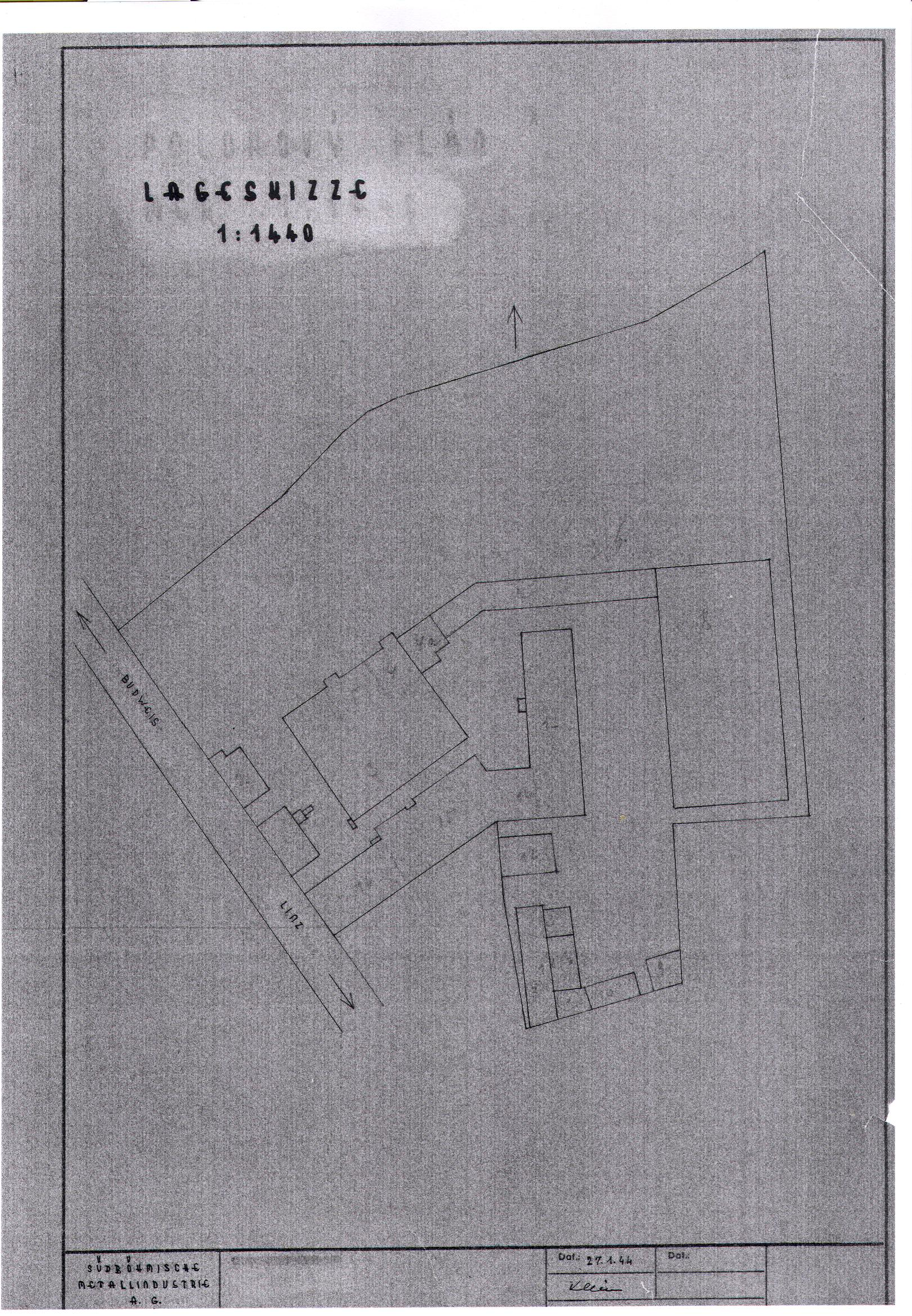 Jihostroj area in 1944